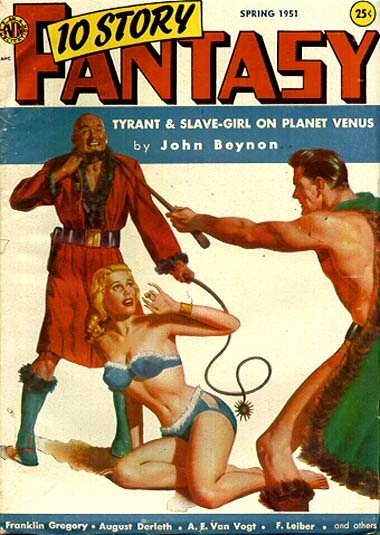 Cover of the Spring 1951 issue of 10 Story Fantasy; artist is unknown